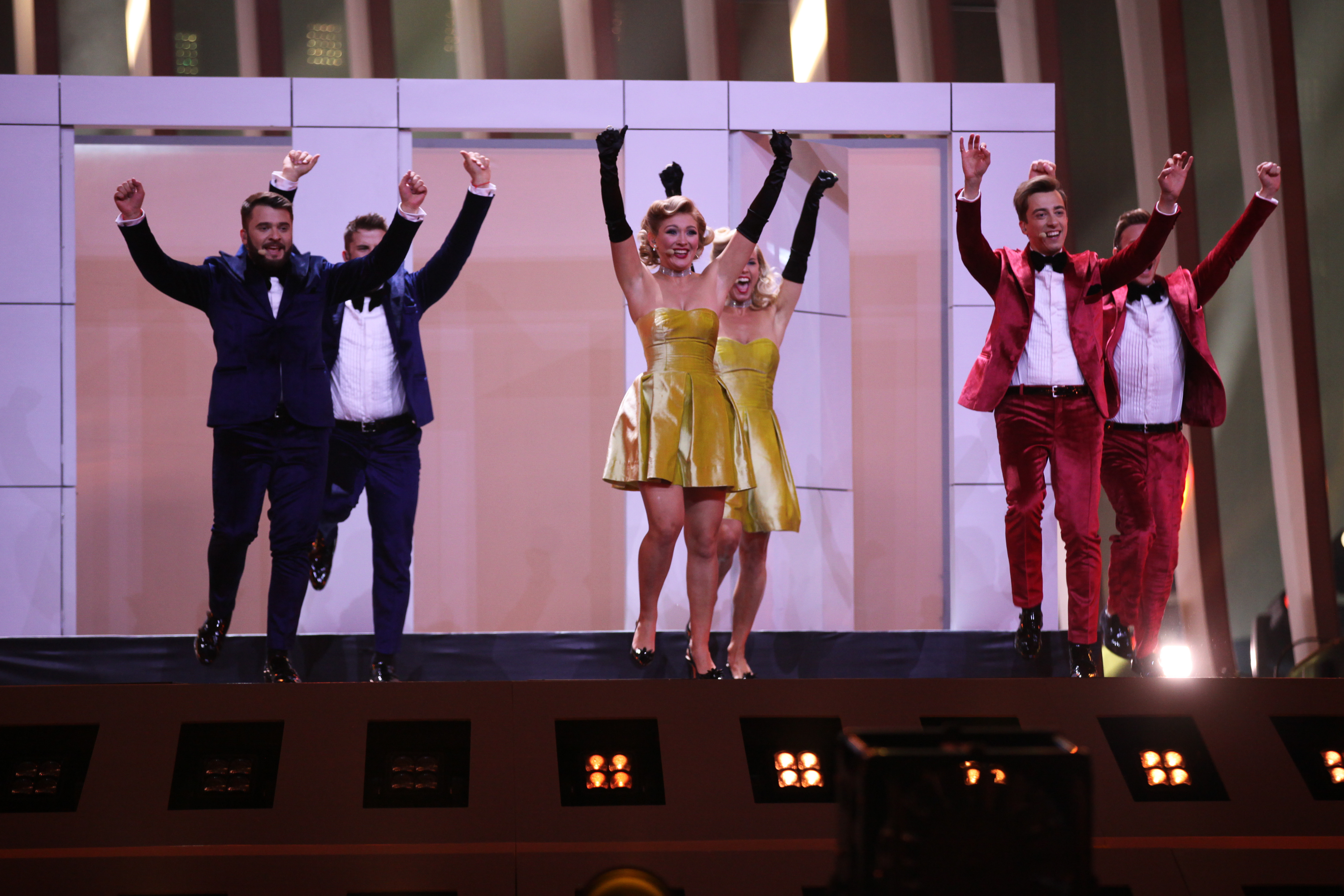 DoReDoS representing Moldova with the song "My Lucky Day" during a rehearsal before the second semi final of the Eurovision Song Contest 2018 in Lisbon.